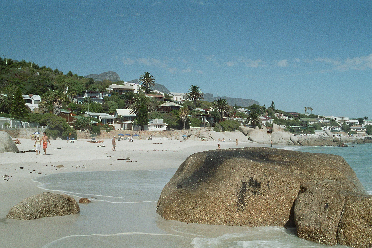 Clifton Beach